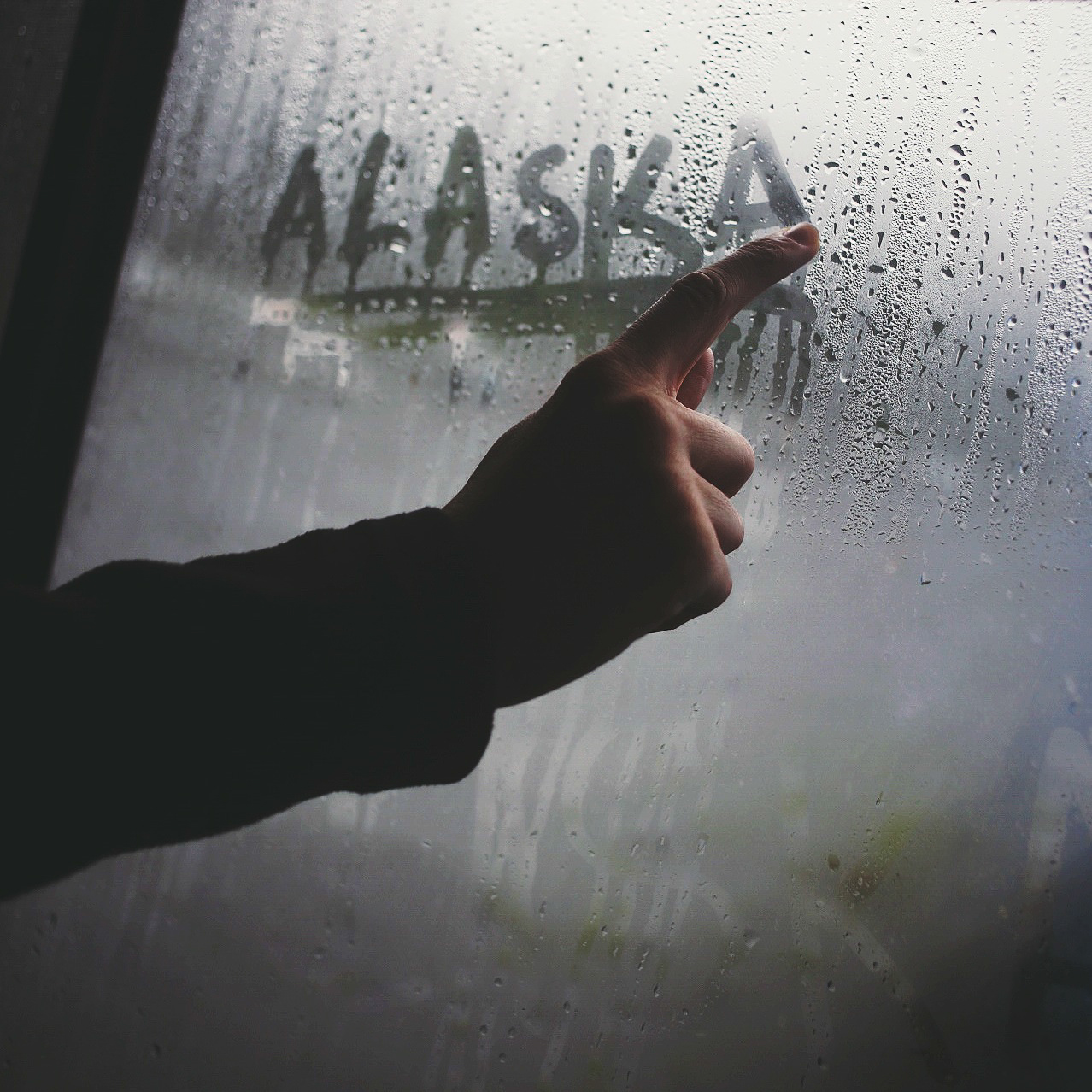 A person writing the name of Alaska on the water condensation on glass